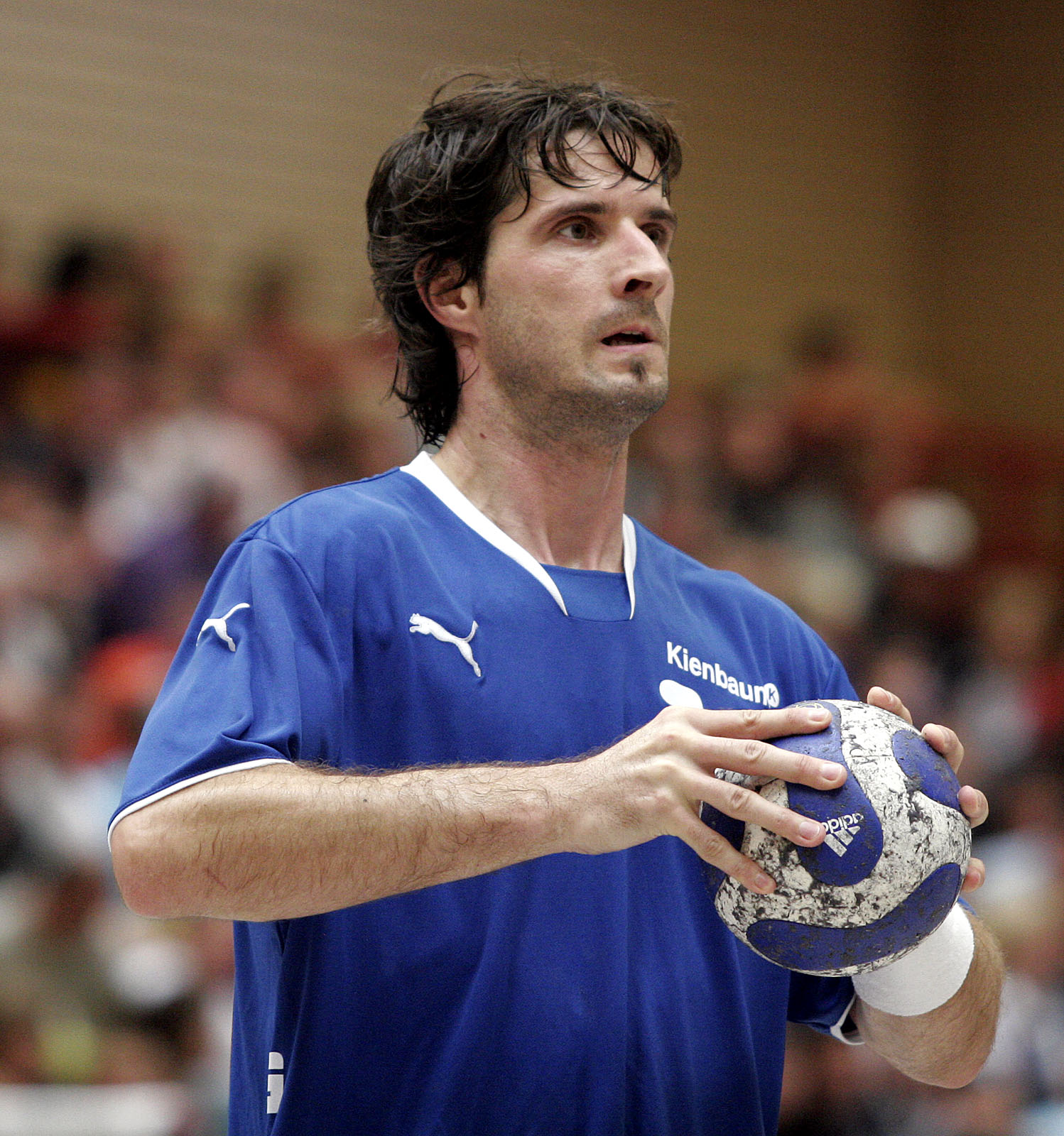 Roman Pungartnik, Slowenian handball player from VfL Gummersbach, during the Schlecker Cup 2007 in Ehingen (Germany)